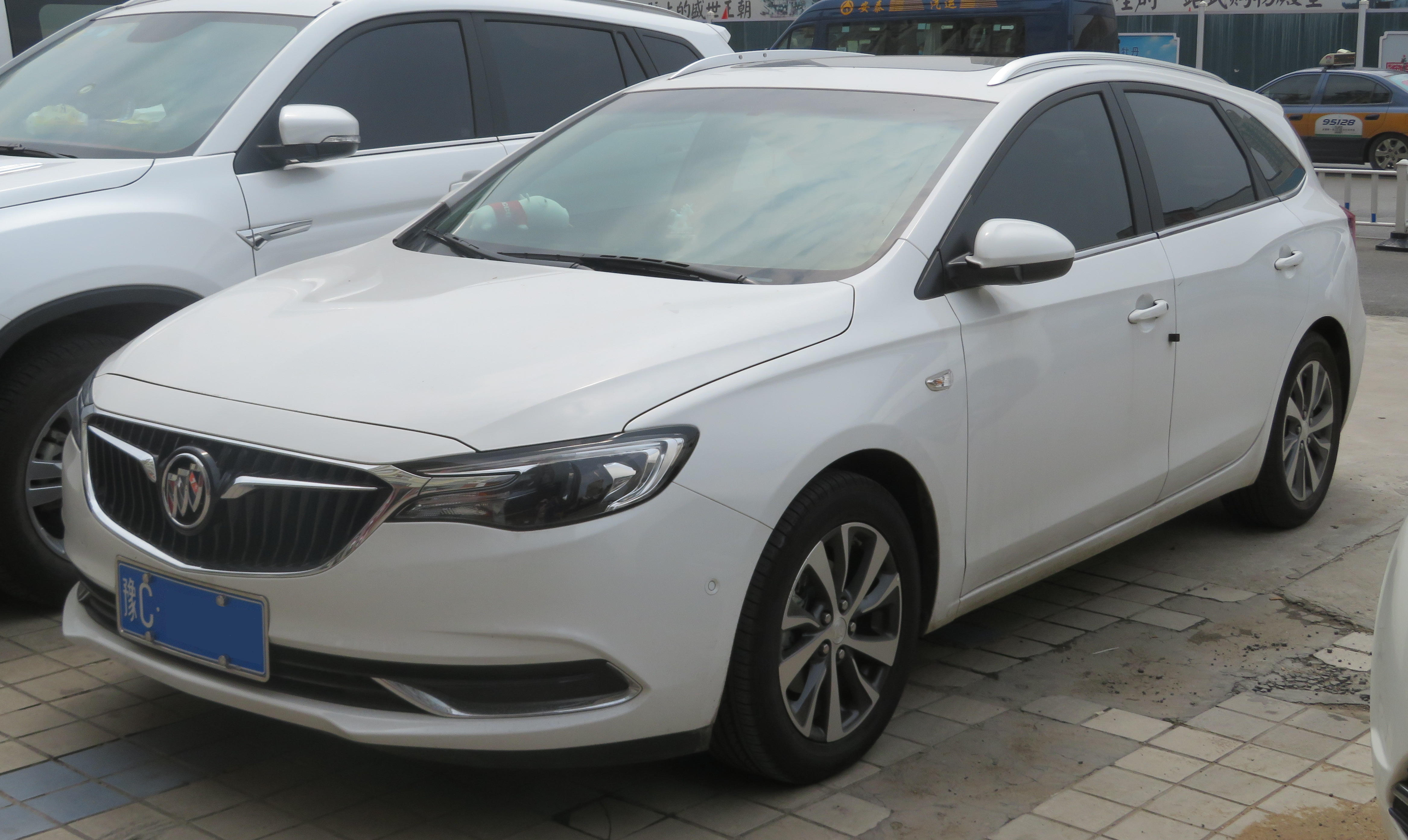 Photographed in Luoyang, Henan province, China